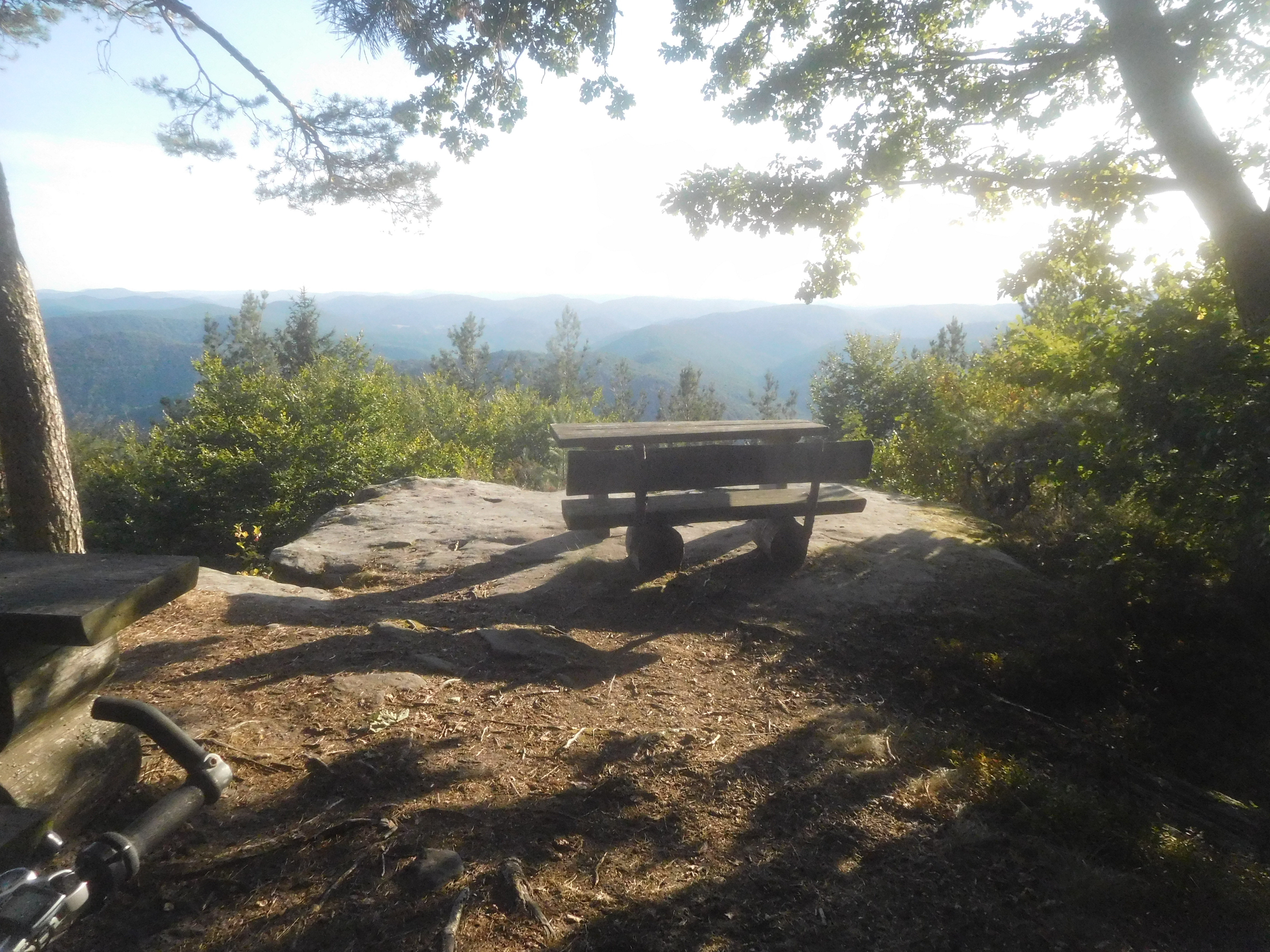 view from Almersberg (Pfalz)